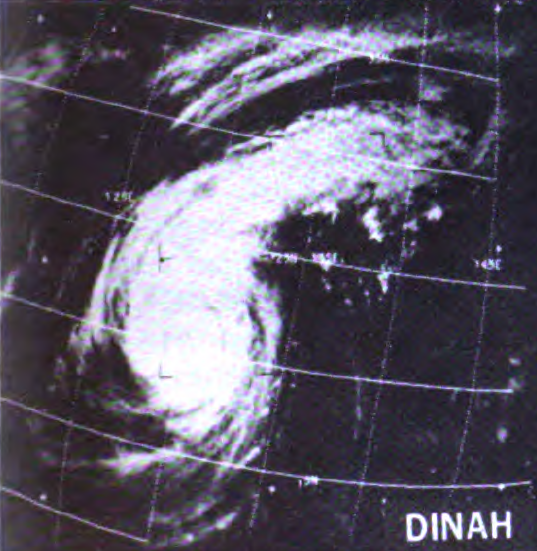 Dinah 1967